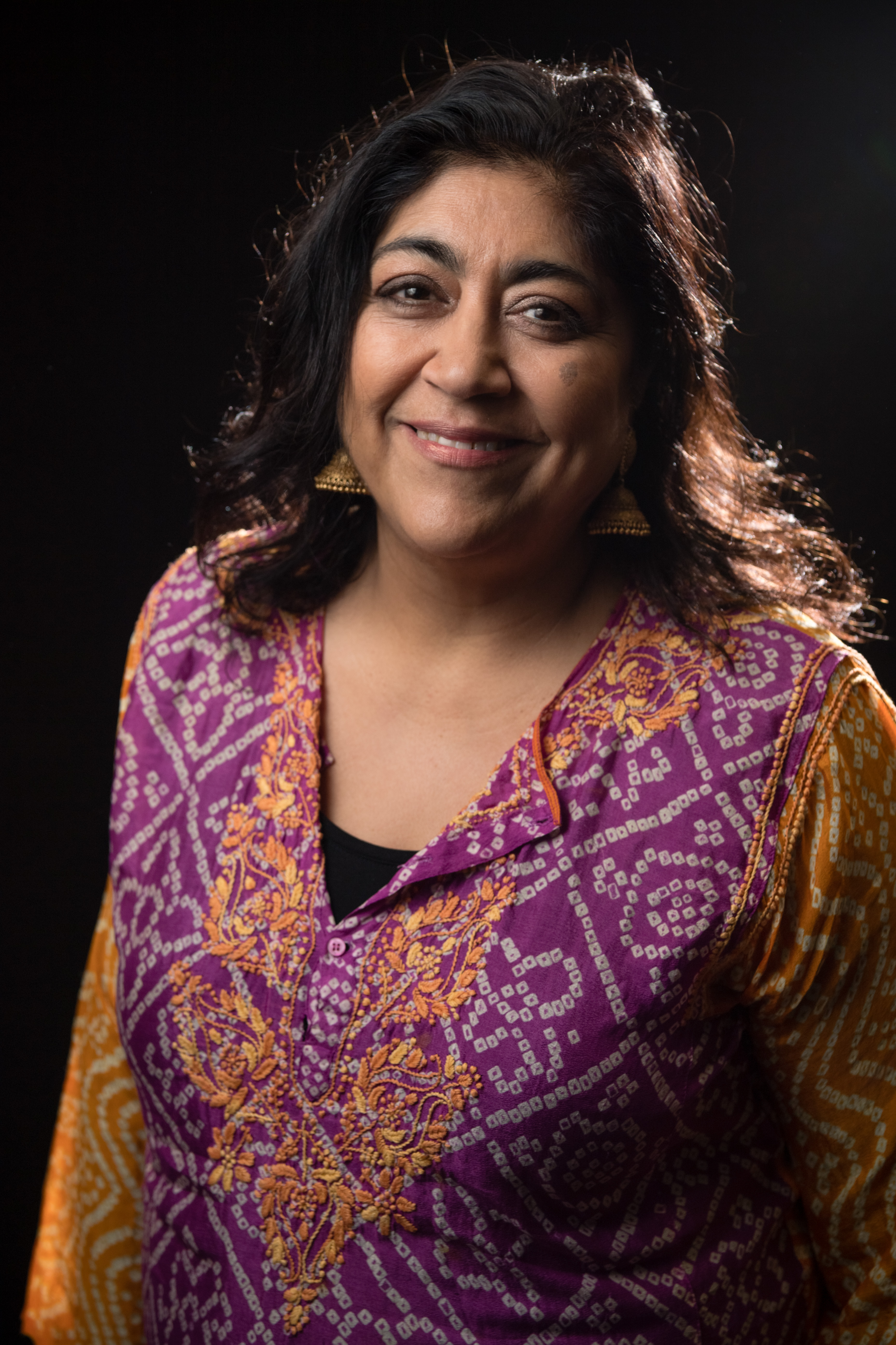 Photography by Neil Grabowsky